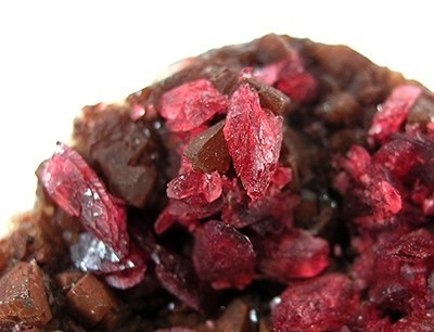 Roselite Locality: Bou Azzer, Bou Azzer District, Tazenakht, Ouarzazate Province, Souss-Massa-Draâ Region, Morocco (Locality at ) Size: 4.9 x 3.6 x 2.2 cm. A fine miniature with sharp red crystals to 6 mm covering the display face. Ex. Martin Zinn Collection.